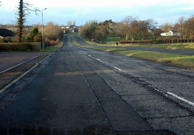 The old A74 dual-carriageway at Lesmahagow Now no longer busy with traffic as it is by-passed by the M74